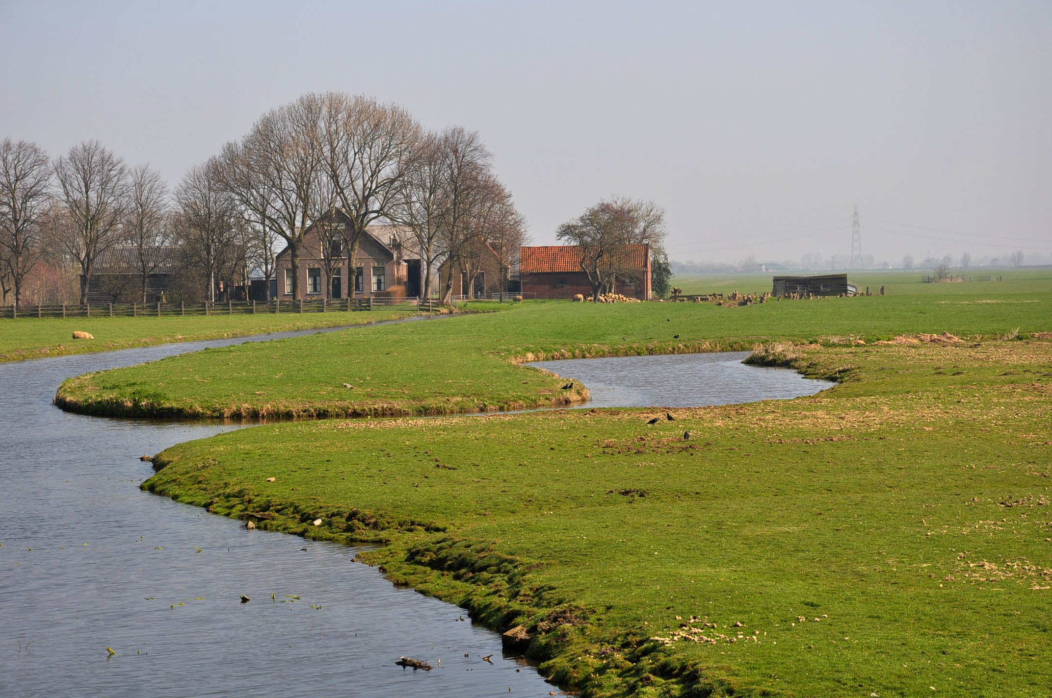 The Achthoven Polder in the municipality of Leiderdorp (a few km east of Leiden, province South Holland, Netherlands).